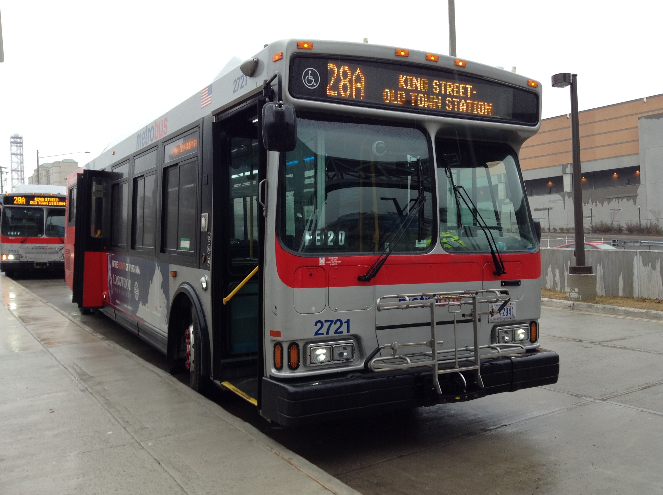 A WMATA 2006 Orion 7.501 CNG Suburban is on the 28A parked right at Tyson's Corner Metro Station. Division: Four Mile Run (F)